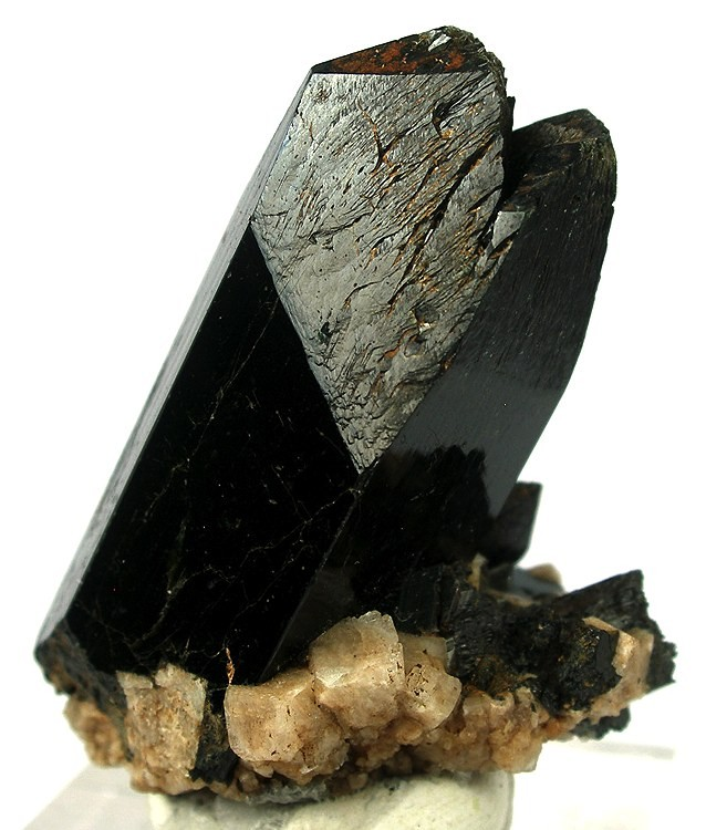 Aegirine, Feldspar Locality: Mt Malosa, Zomba District, Malawi (Locality at ) Size: 3.0 x 2.8 x 2.0 cm. A pristine, highly lustrous aegirine crystal attached to feldspar matrix from recent finds at Mt. Malosa, Malawi. This fine, blocky, complete-all-around crystal has a very pleasing, split fishtail termination with light etching.